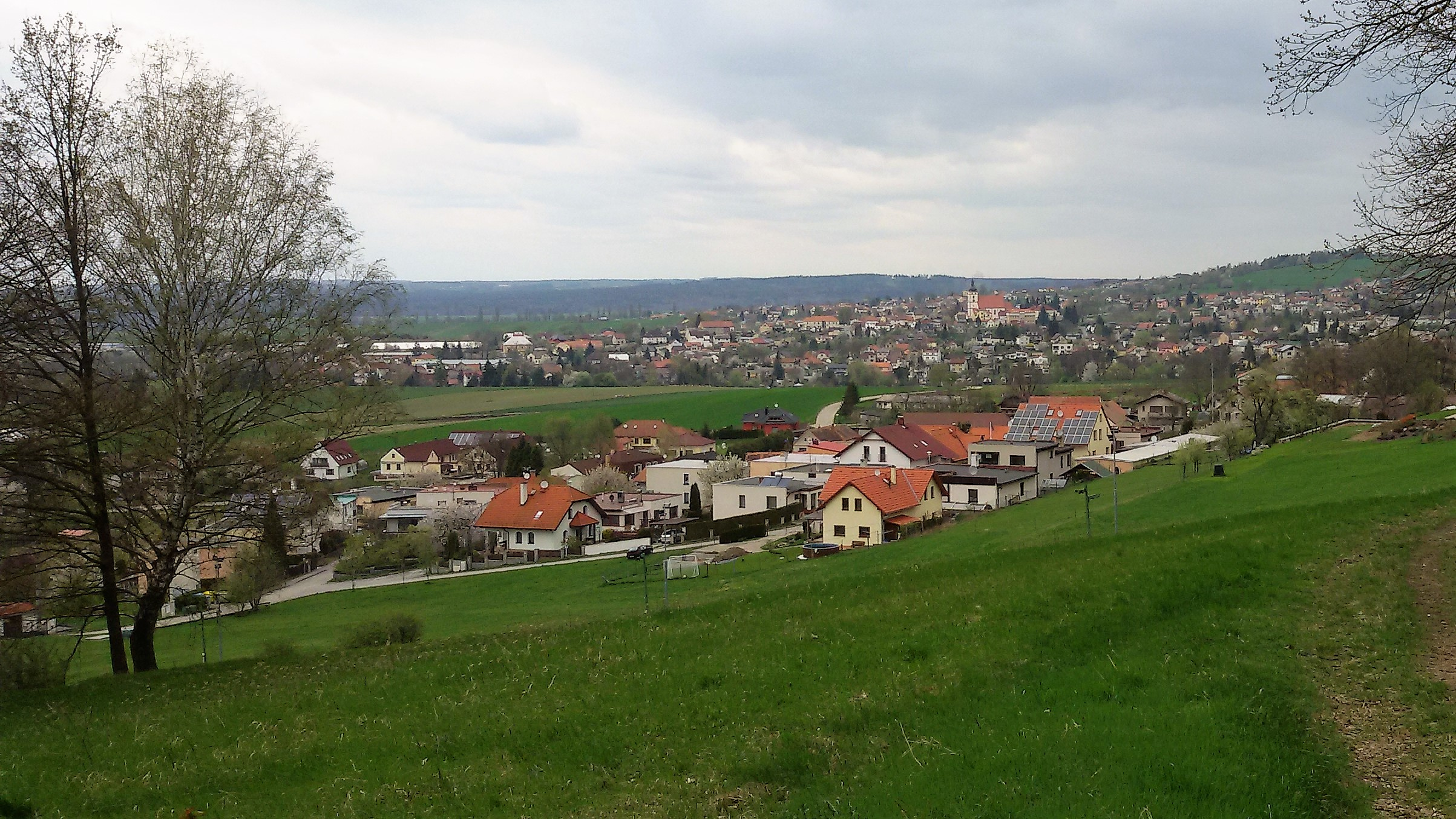 Village of Dubičné, South view, České Budějovice District, Czechia